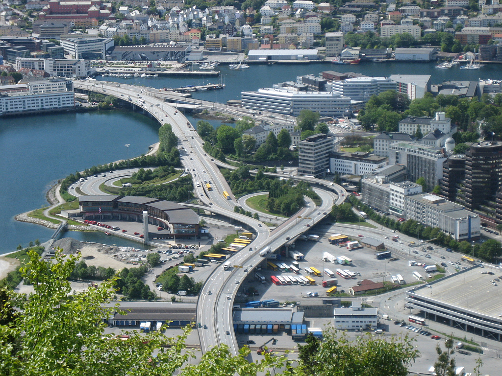 Seen from Mt. Fløyen. The amazing miracle of turning oil into asphalt...